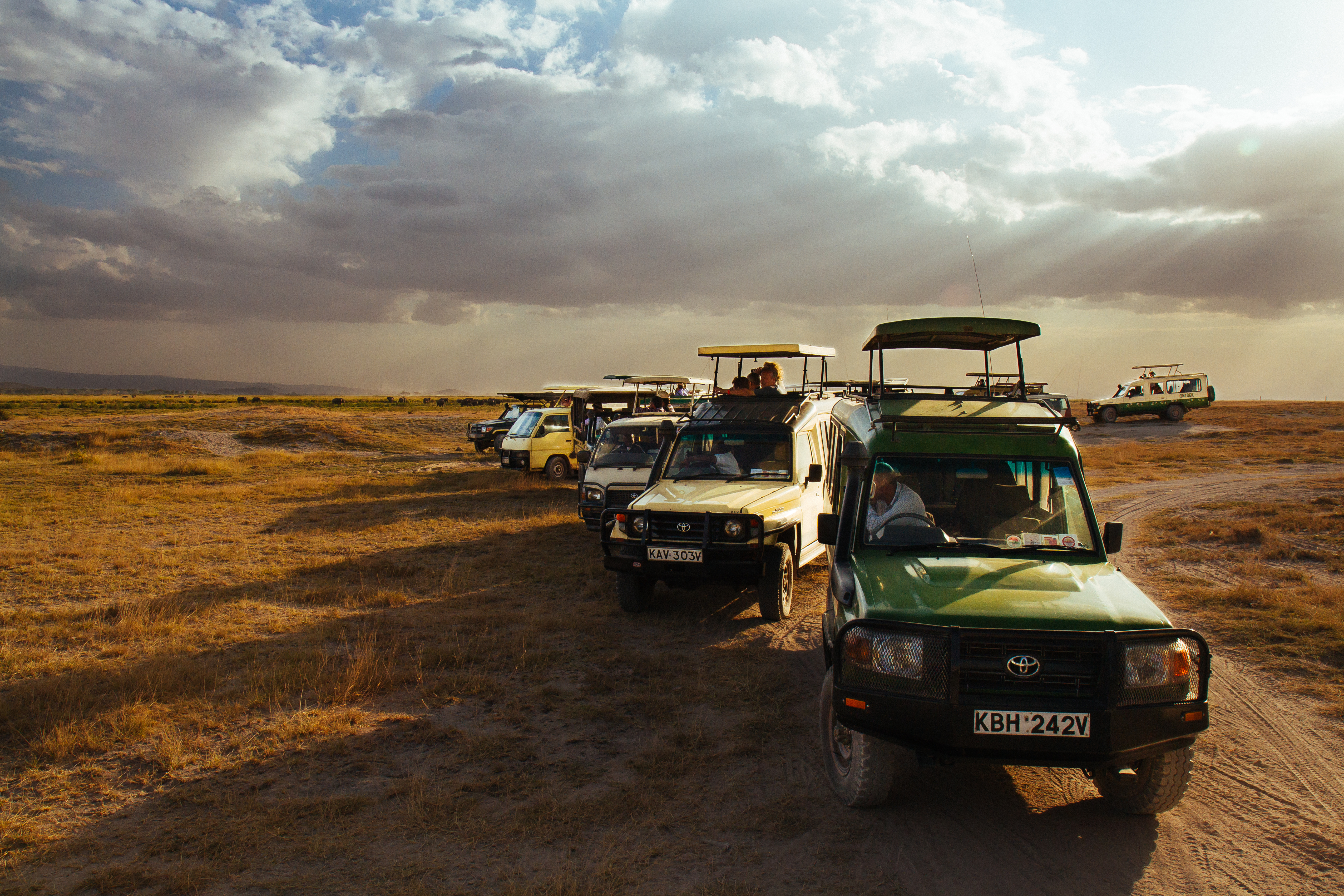 I took this single exposure slightly underexposed to preserve the sky and sun streaks. I came from a T1i and am pretty impressed with the improved DR of the more recent Canon APS-C sensors. I'll be adding a couple of pictures a day for the next few weeks. Check out the developing set here: Kenya 2013